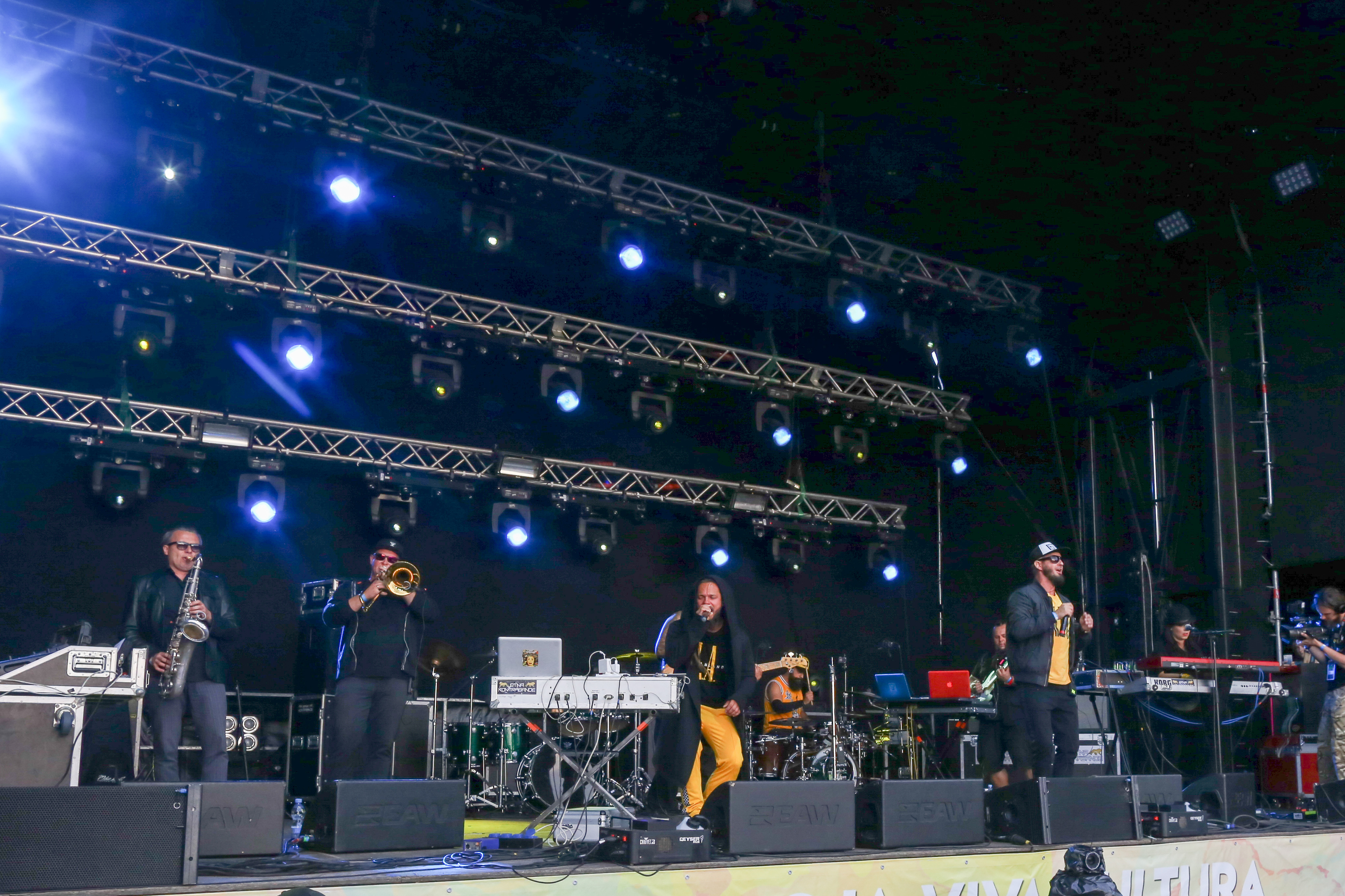 Pol'and'Rock Festival in 2019.